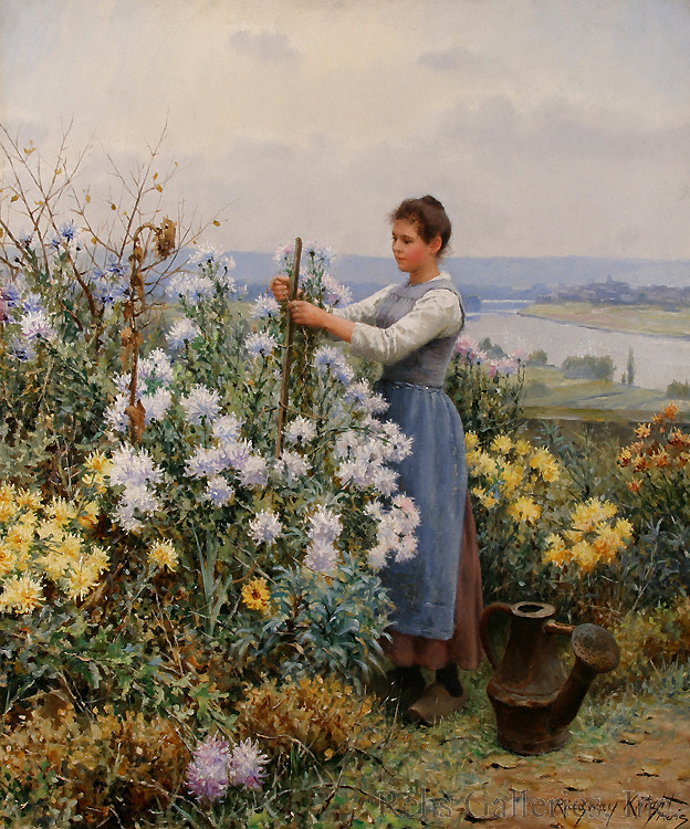 chrysanthemums